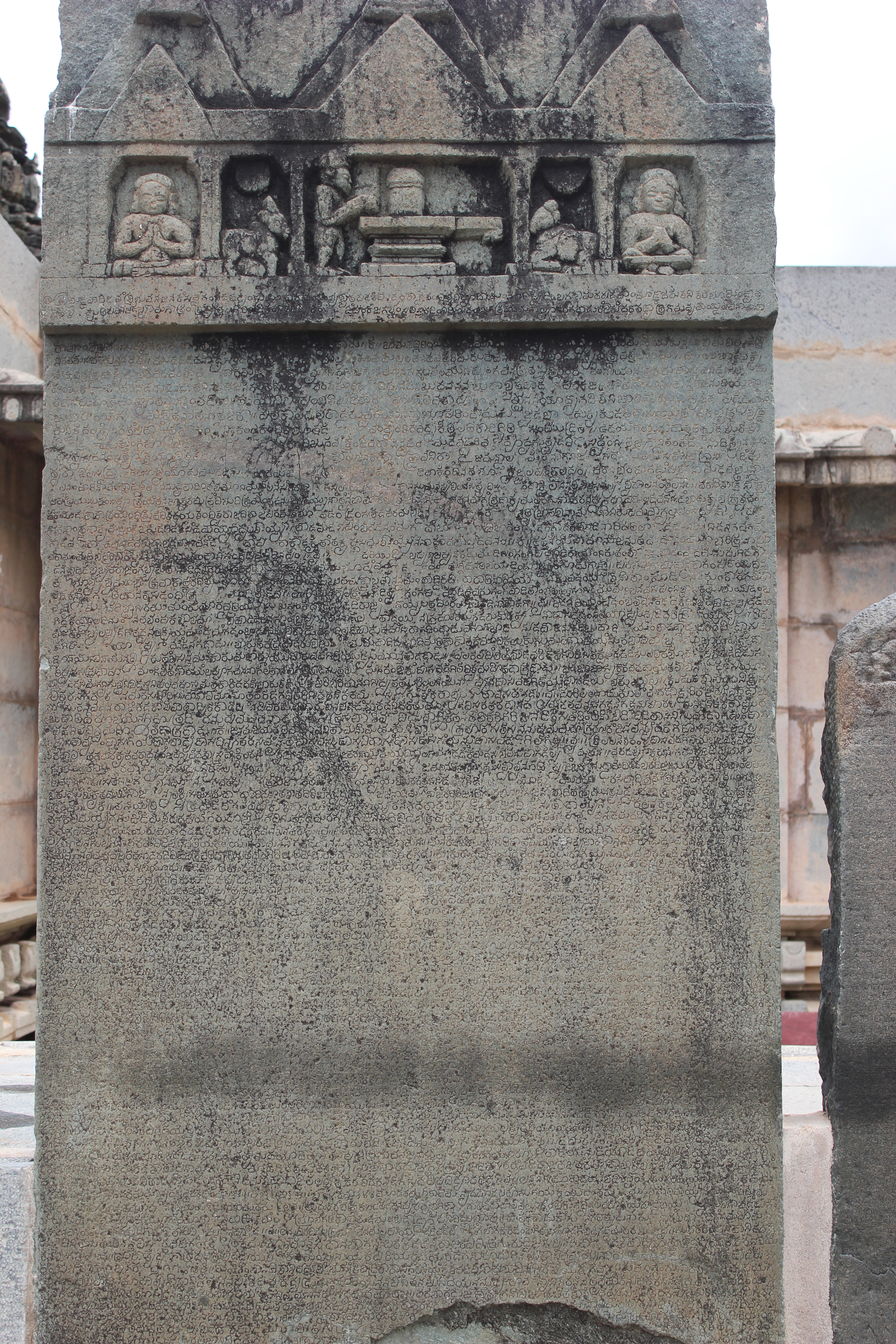 This photograph was taken by me at the Kalleshvara temple (also spelt Kalleshwara or Kallesvara, and also called Kattesvara) in Hire Hadagali, Bellary district, Karnataka state, India. The temple was built in 1057 A.D. by Western (Kalyani) Chalukya King Somesvara I. Source: South Indian Inscription, Volume IX, Kannada Inscriptions from Madras Presidency, Miscellaneous Inscriptions in Kannada, Part 1, Chalukyas of Kalyani, no. 118, editors:Shama Shastry and Lakshminarayana Rao, url= publisher=Archaeological Survey of India, New Delhi; Imagining architects: creativity in the religious monuments of India, pg. 163, Ajay J. Sinha, University of Delaware Press, 2000, Cranbury, New Jersey, ISBN 0-87413-864-9 Invalid ISBN